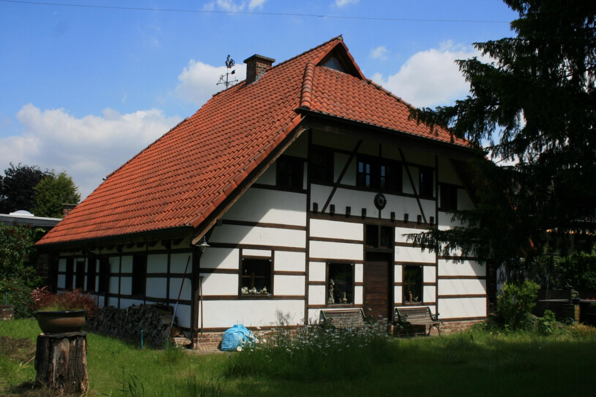 Cultural heritage monument No. D 008 in Mönchengladbach